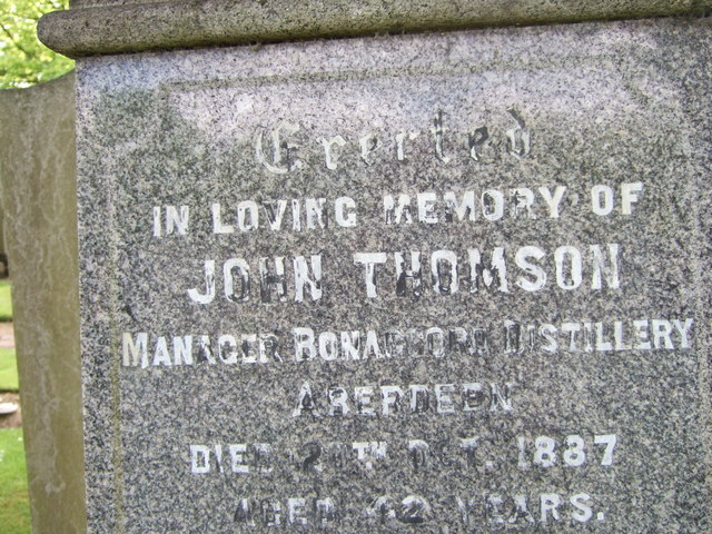 Gravestone mentioning Bon Accord Distillery The Bon Accord Distillery operated in the Hardgate between 1855 and 1914, when it ceased production. . Nontheless bottles of their nectar occasionally appear for sale on the internet with an asking price of £4000-4500! eg Item 509